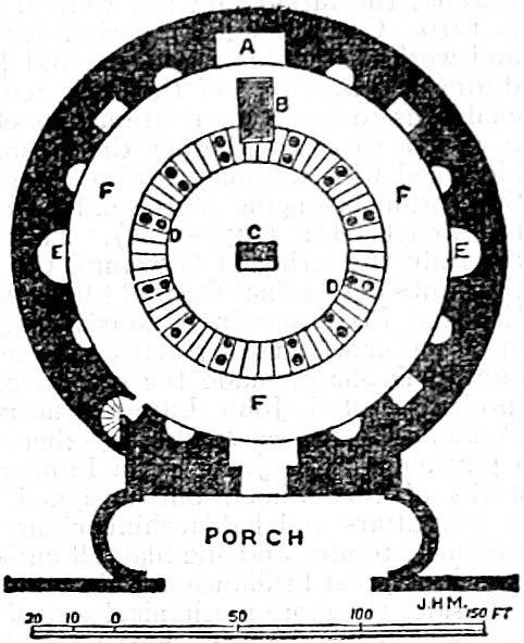 Ancient Rome (city) - plan of church and mausoleum of Constanza.